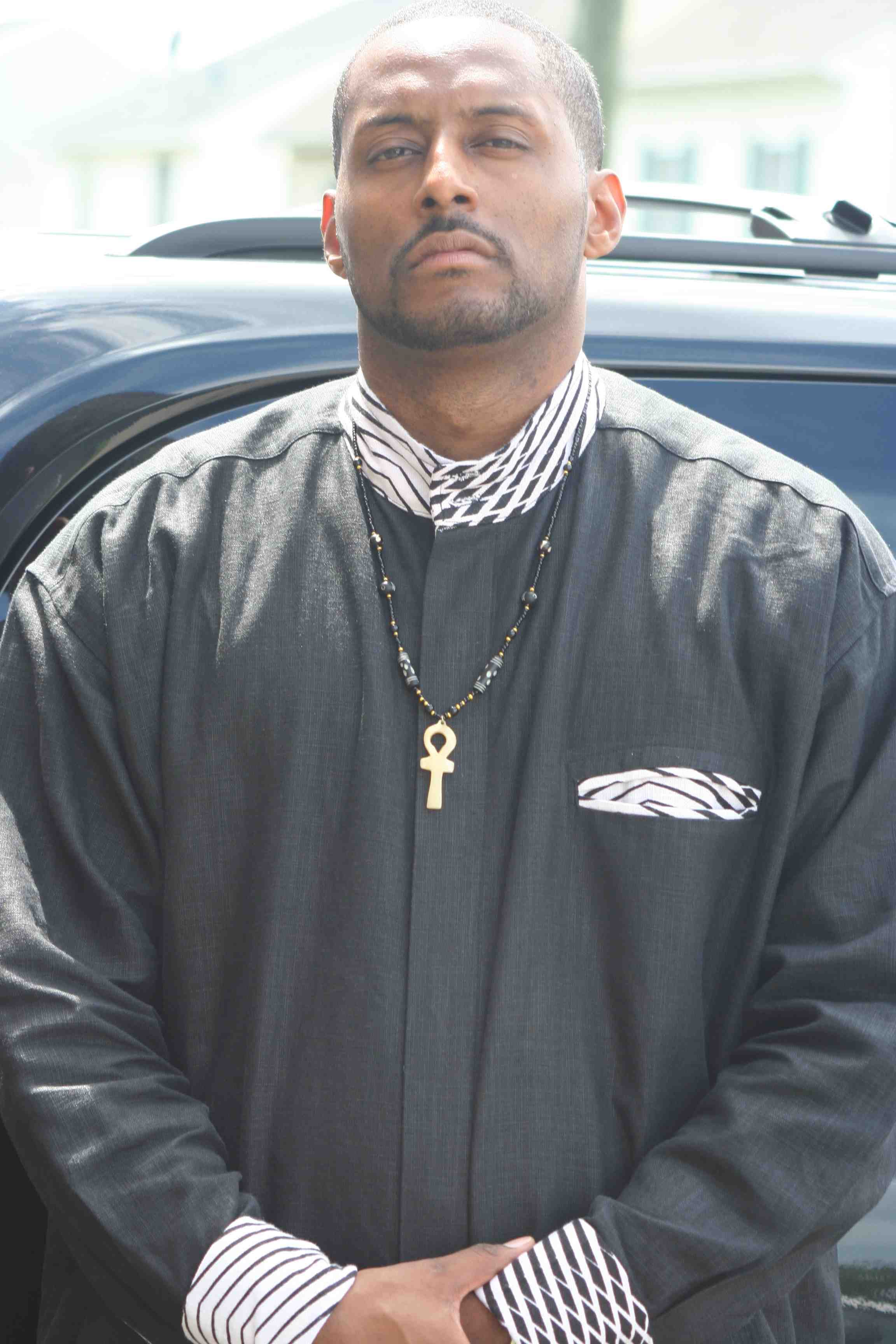 Picture of Ayo H. Kimathi